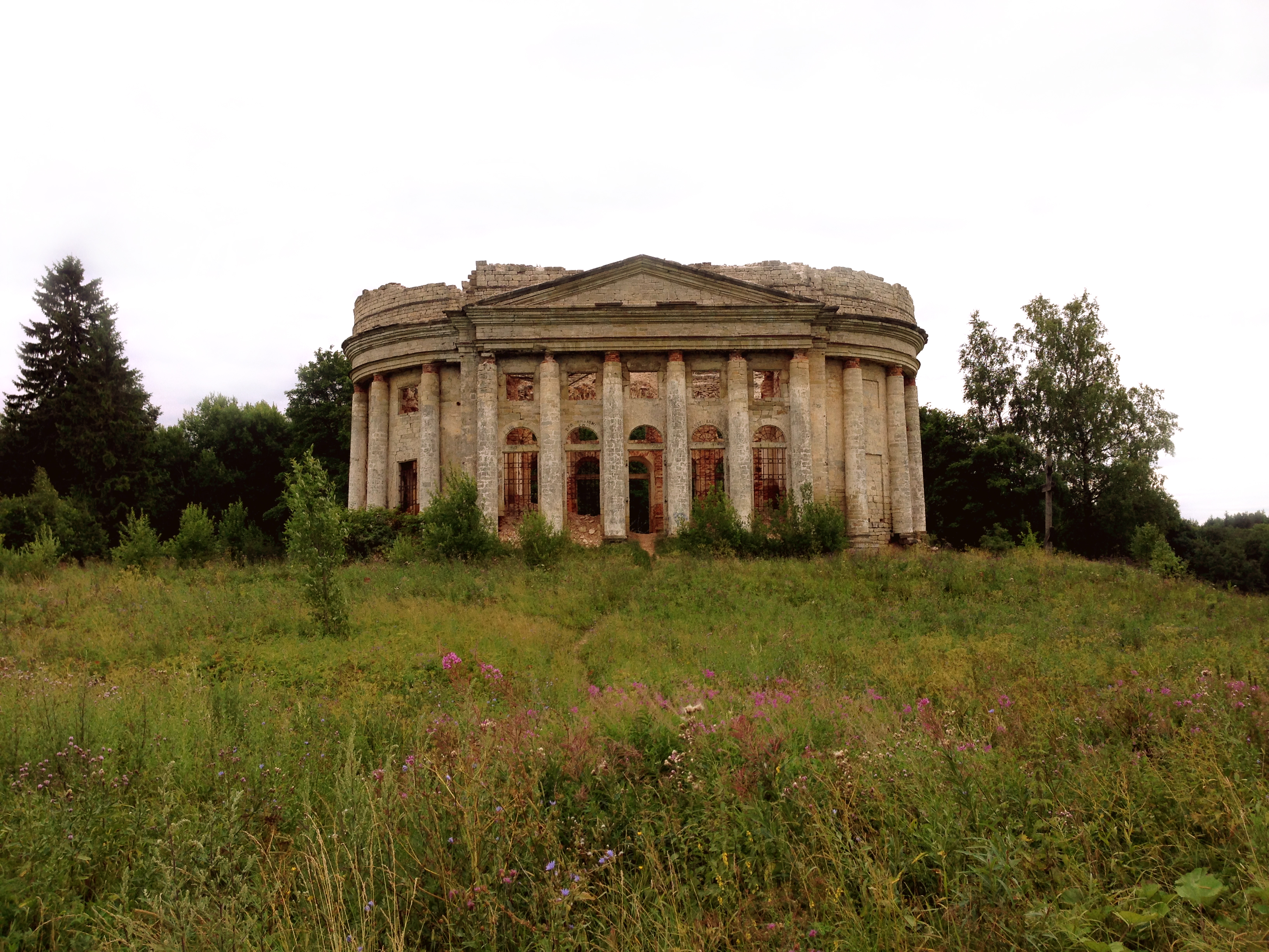 Ruins of the Trinity Church close to the village of Pyataya Gora, Volosovsky District, Leningrad Oblast, Russia.